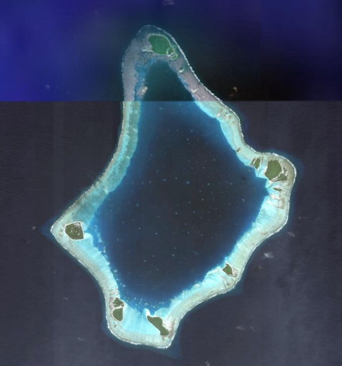 Satellite Image of Palmerston, Cook Islands.